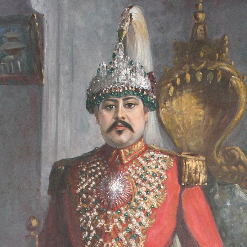 His Majesty King, Prithvi Bir Bikram Shah (1881-1911), lebte 1875-1911